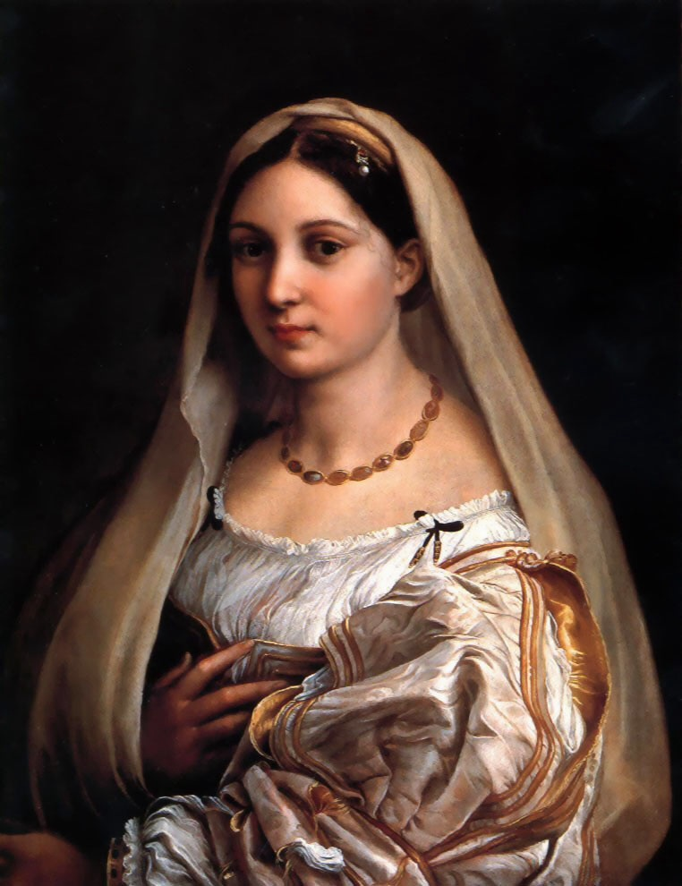 “Woman with a veil (La Donna Velata)”